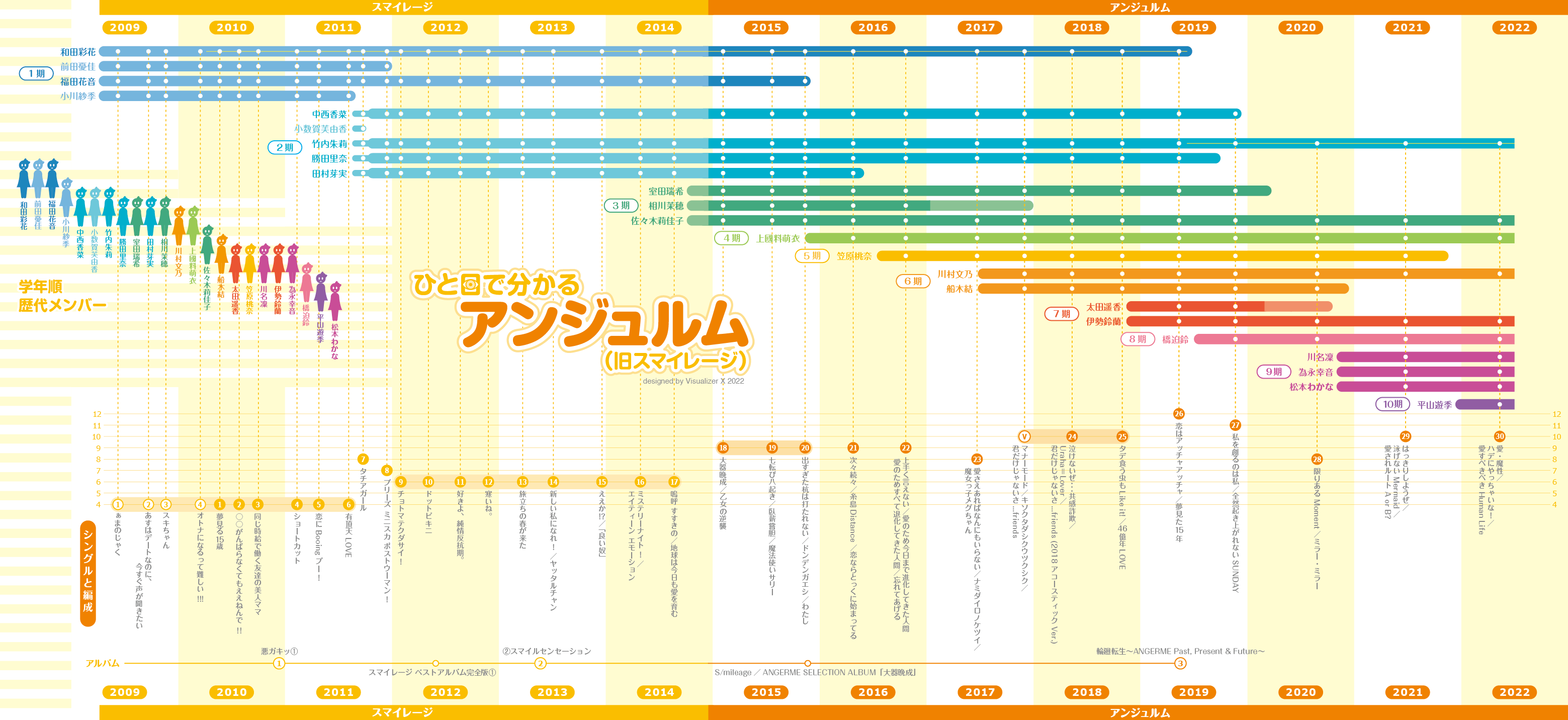 The history of Angerme's transformation